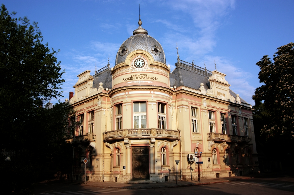 Regional library "Liuiben Karavelov" in Rousse, Bulgaria